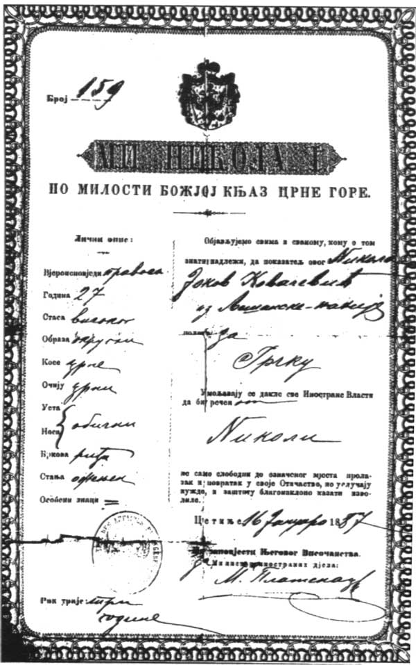 An old passport of Montenegro, issued in 1887 during rule of prince Nikola Petrović-Njegoš.